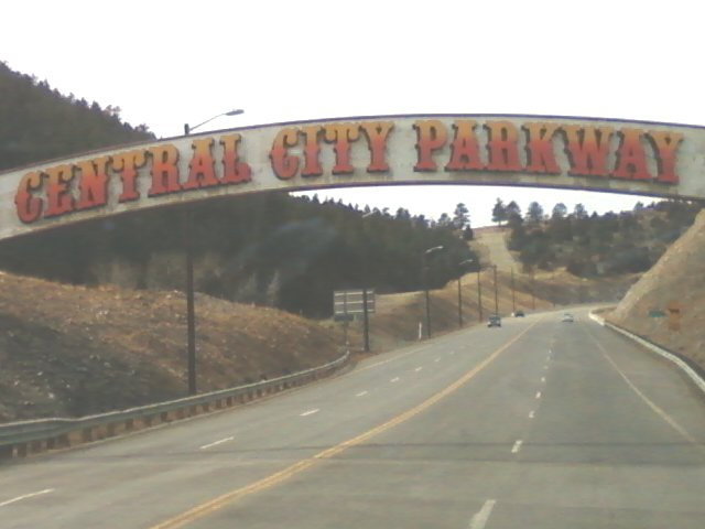 Central City Parkway archway upon entering from Interstate 70 exit 243.